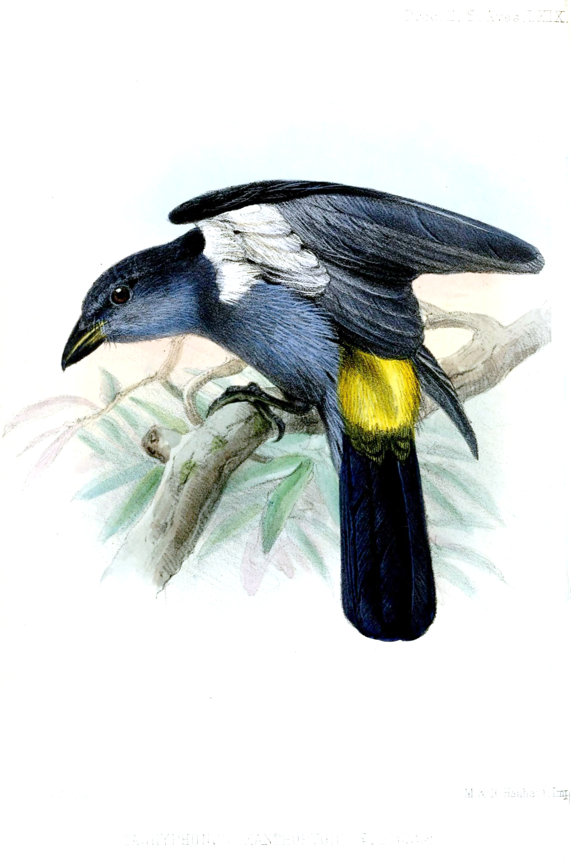 Tachyphonus xanthopygius = Heterospingus xanthopygius